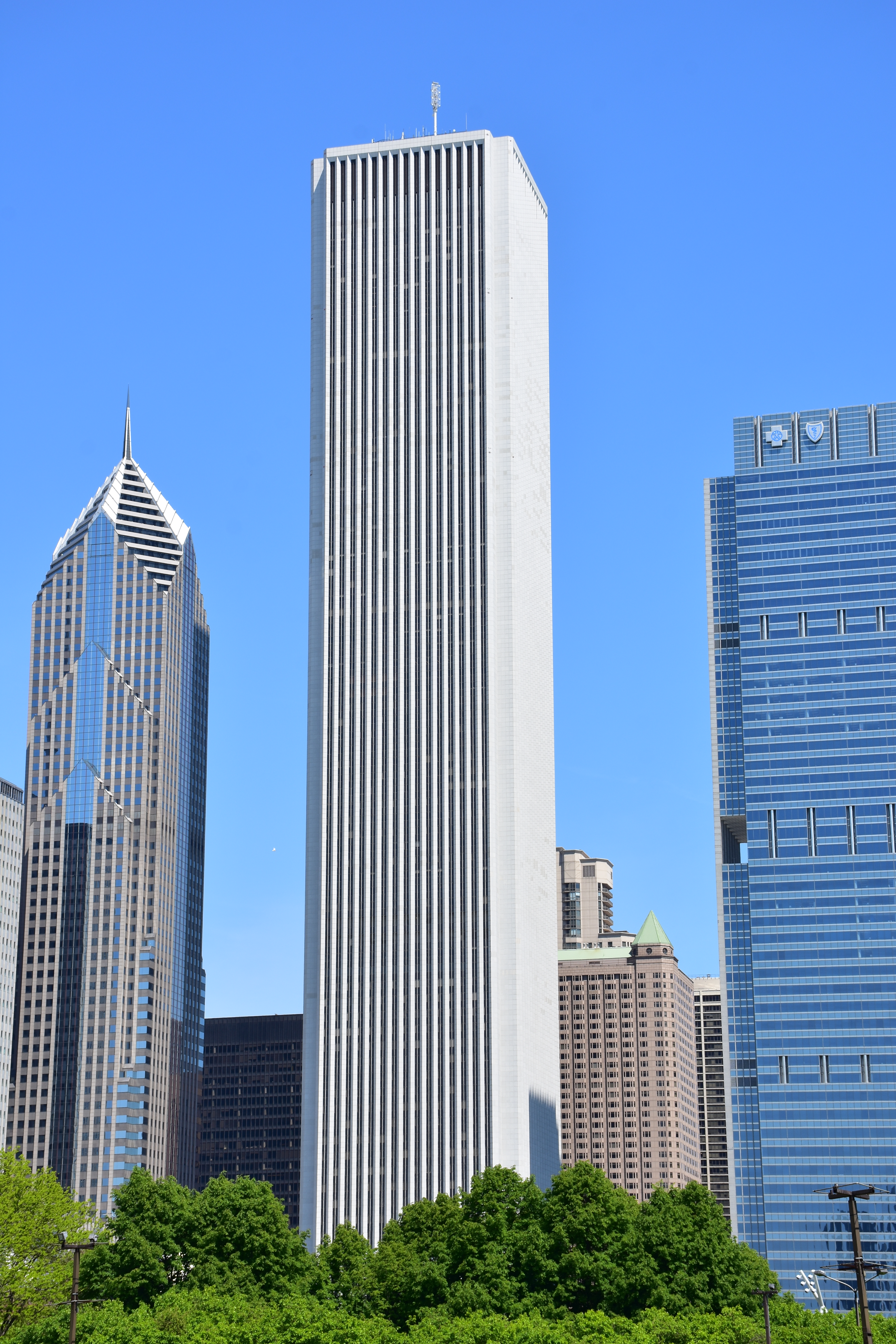 Aon Center, in Chicago as viewed from the south